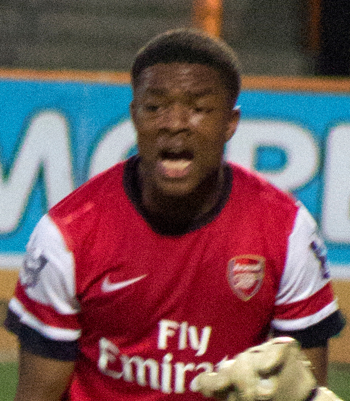 Chuba Akpom playing for Arsenal U-21 team.